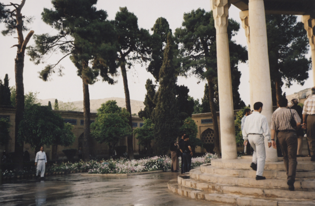 Elements of the Persian garden, such as the shade, the jub, and the courtyard style hayāt in a public garden in Shiraz.